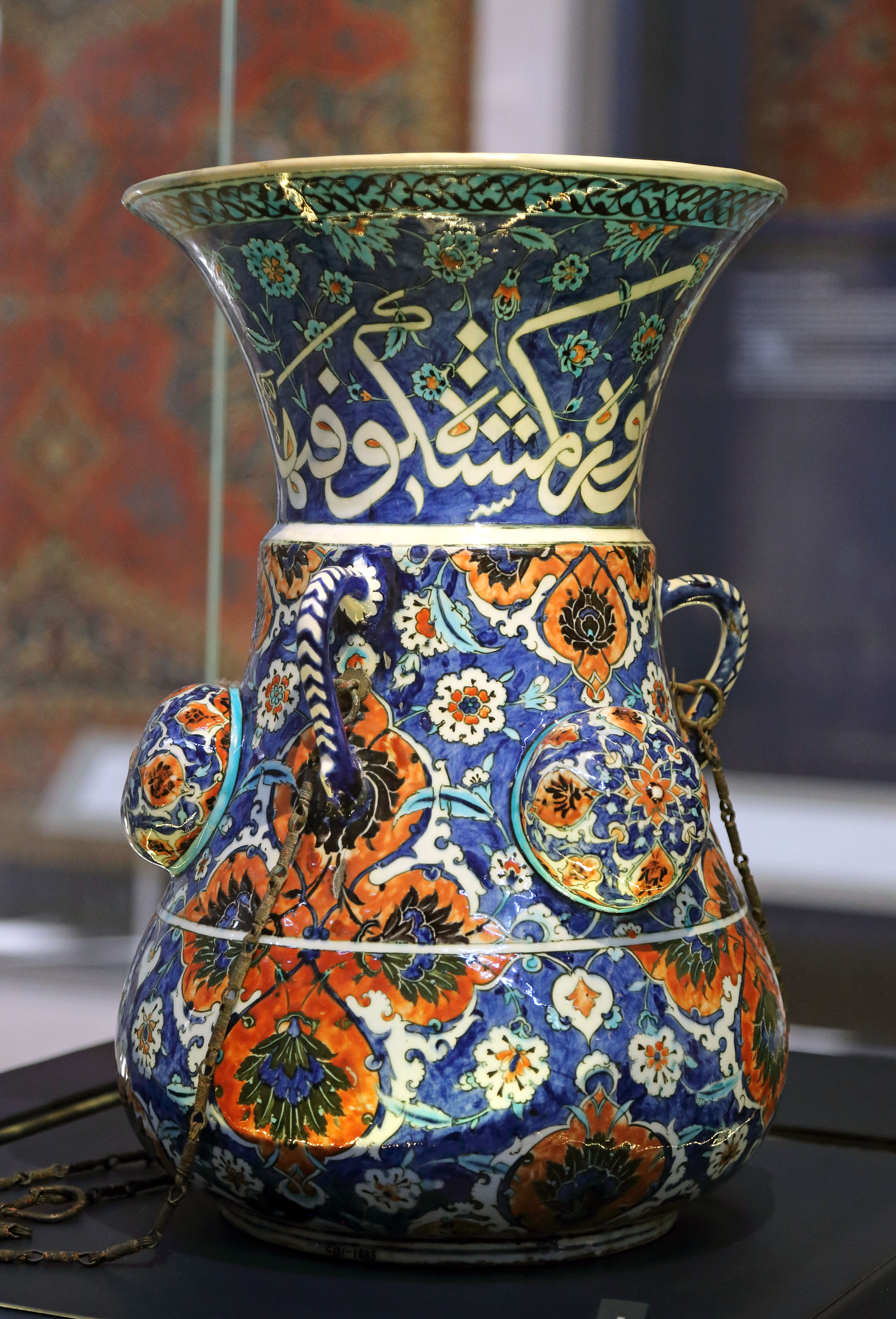 Mosque lamp that is believed to have been made for the Süleymaniye Mosque in Istanbul